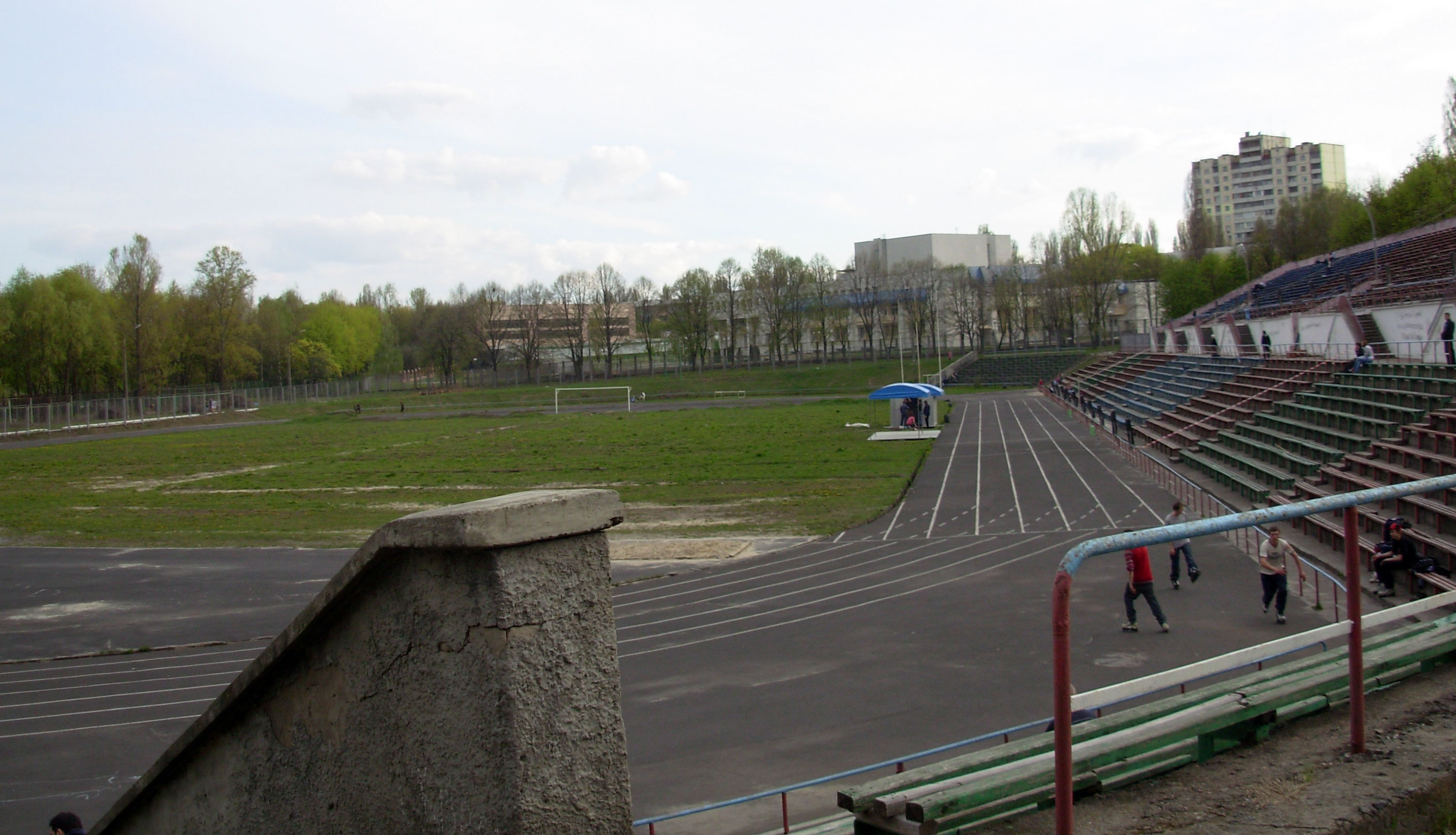 NAU Stadium in Kyiv